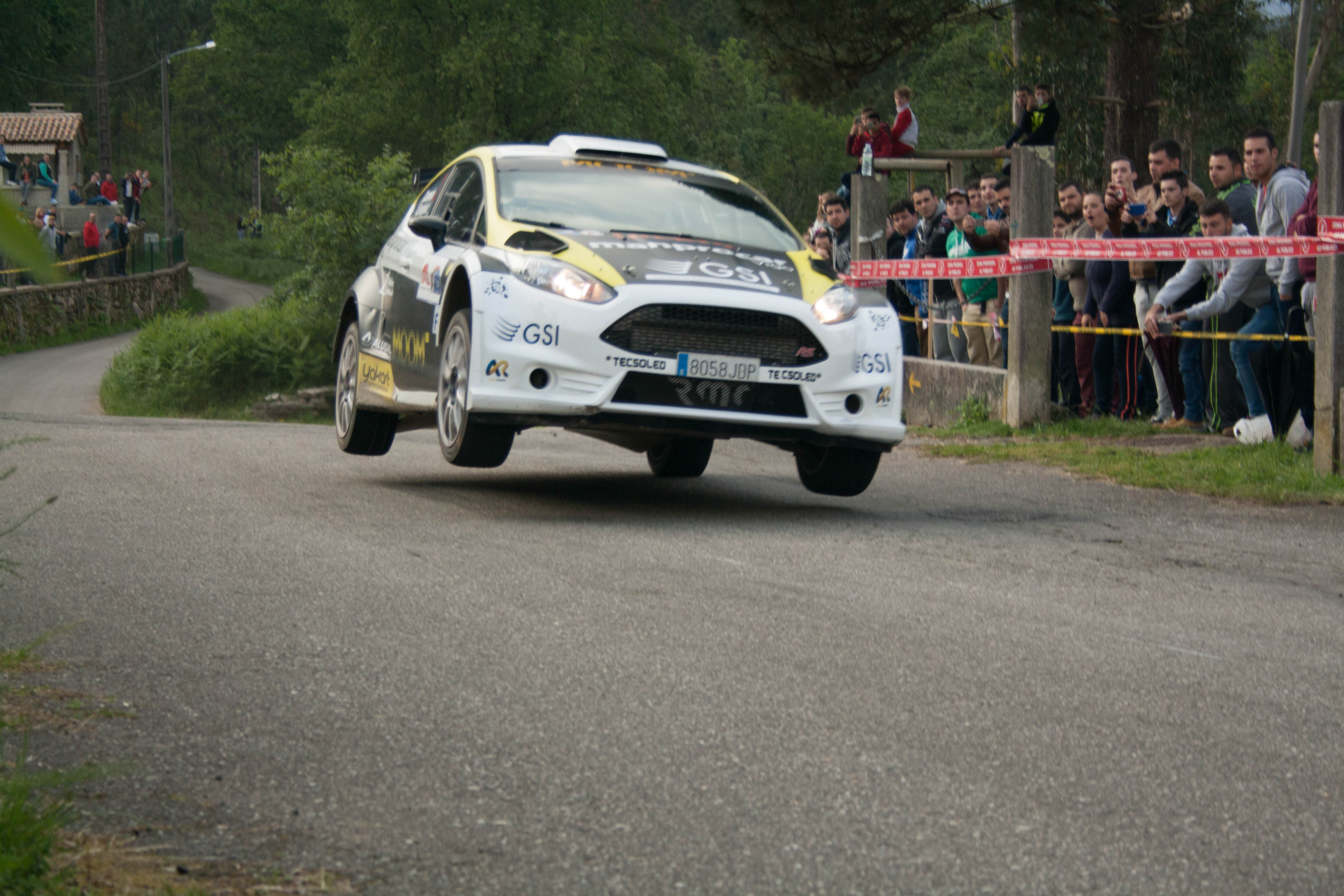 II Rally Eurocidade